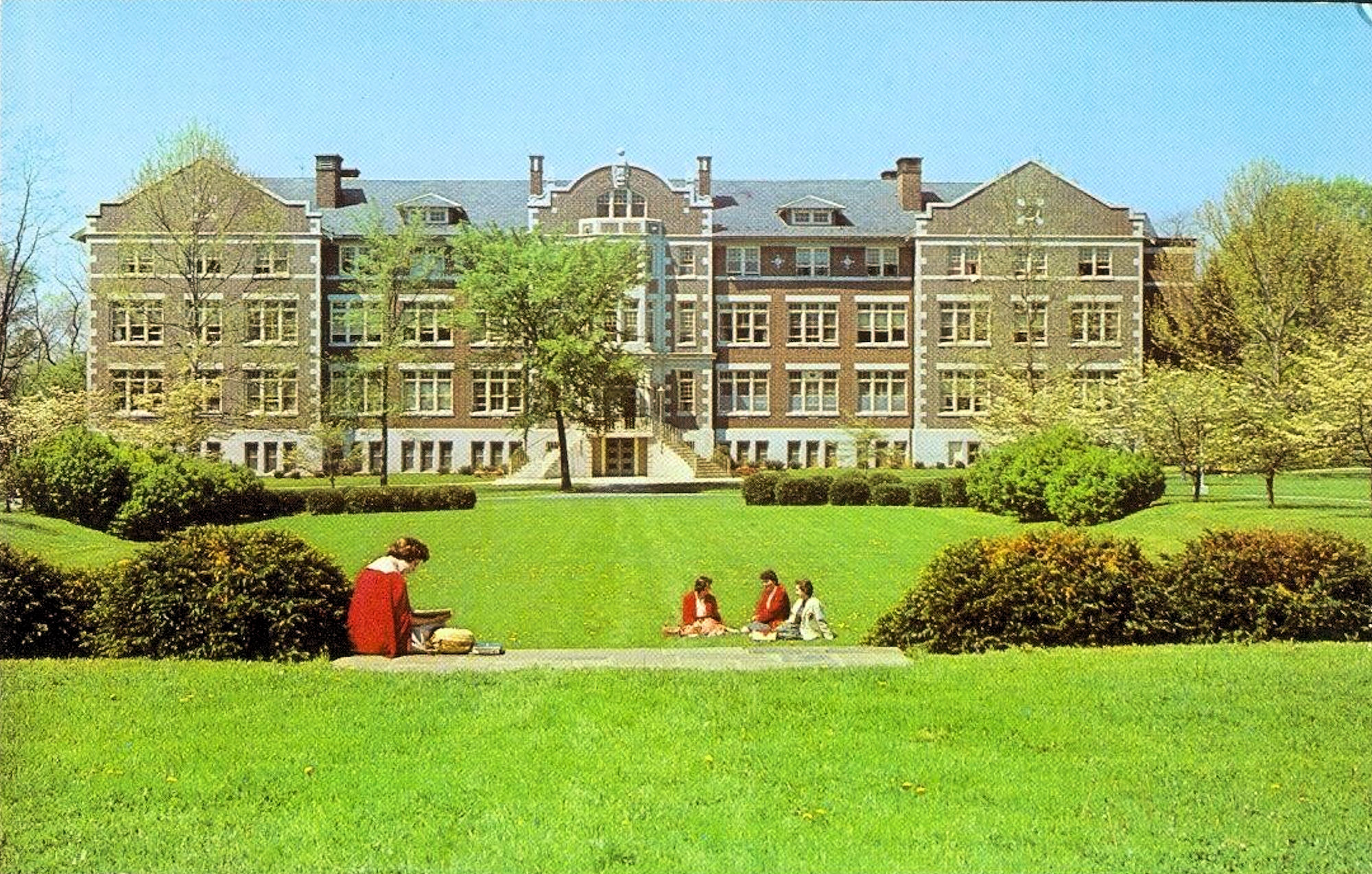 Brown Hall - Muhlenburg College - Allentown PA